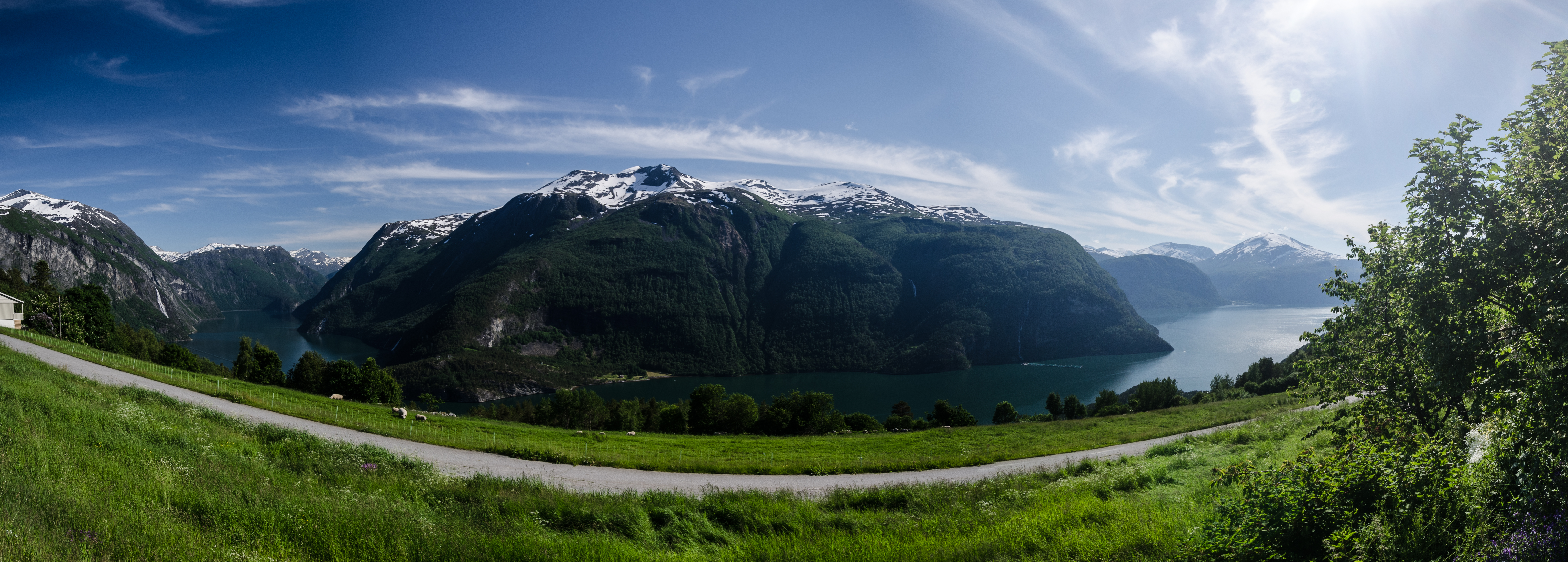 3 days and 2500km later we arrived at our final destination. From here we took trips around the area for 3 weeks. This was the view from out holiday house, wich was right in a Fjord in the central part of Norway. It was only a few km away from the world famous Geirangerfjord. Fjørå (Fjøra).